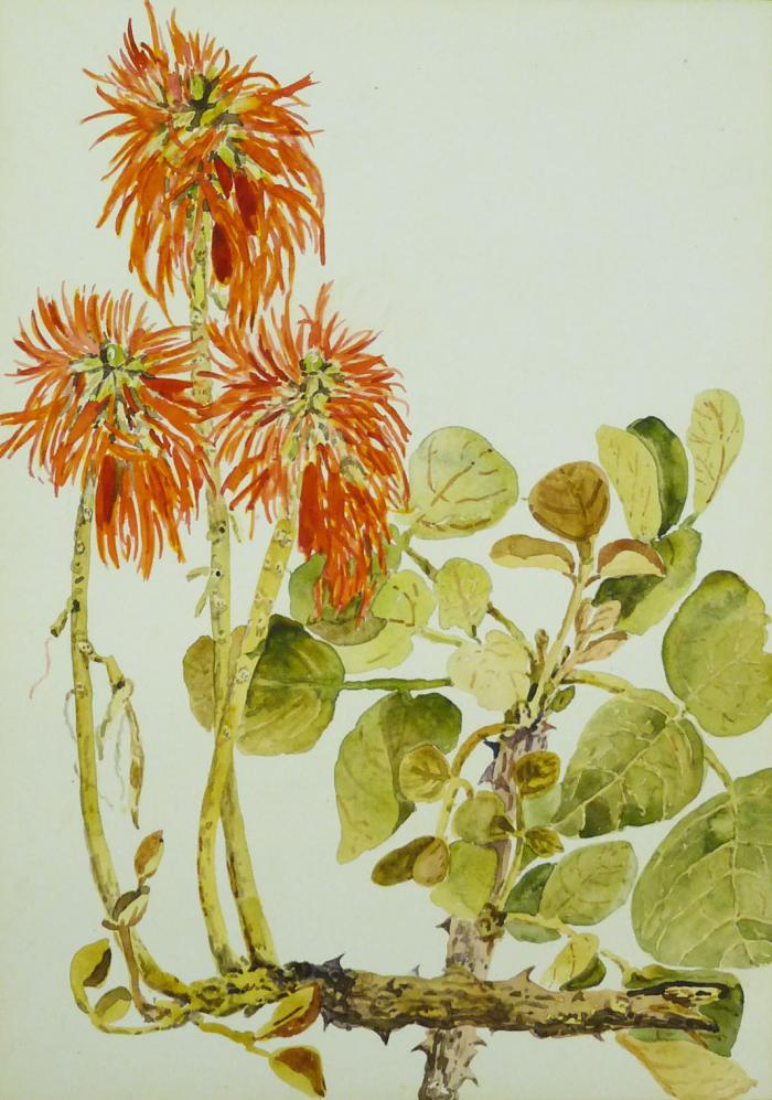 Erythrina (Marianne) Harriet Mason (1845–1932), poor-law inspector - date unknown so set at 1932 - images from Kew Gardens